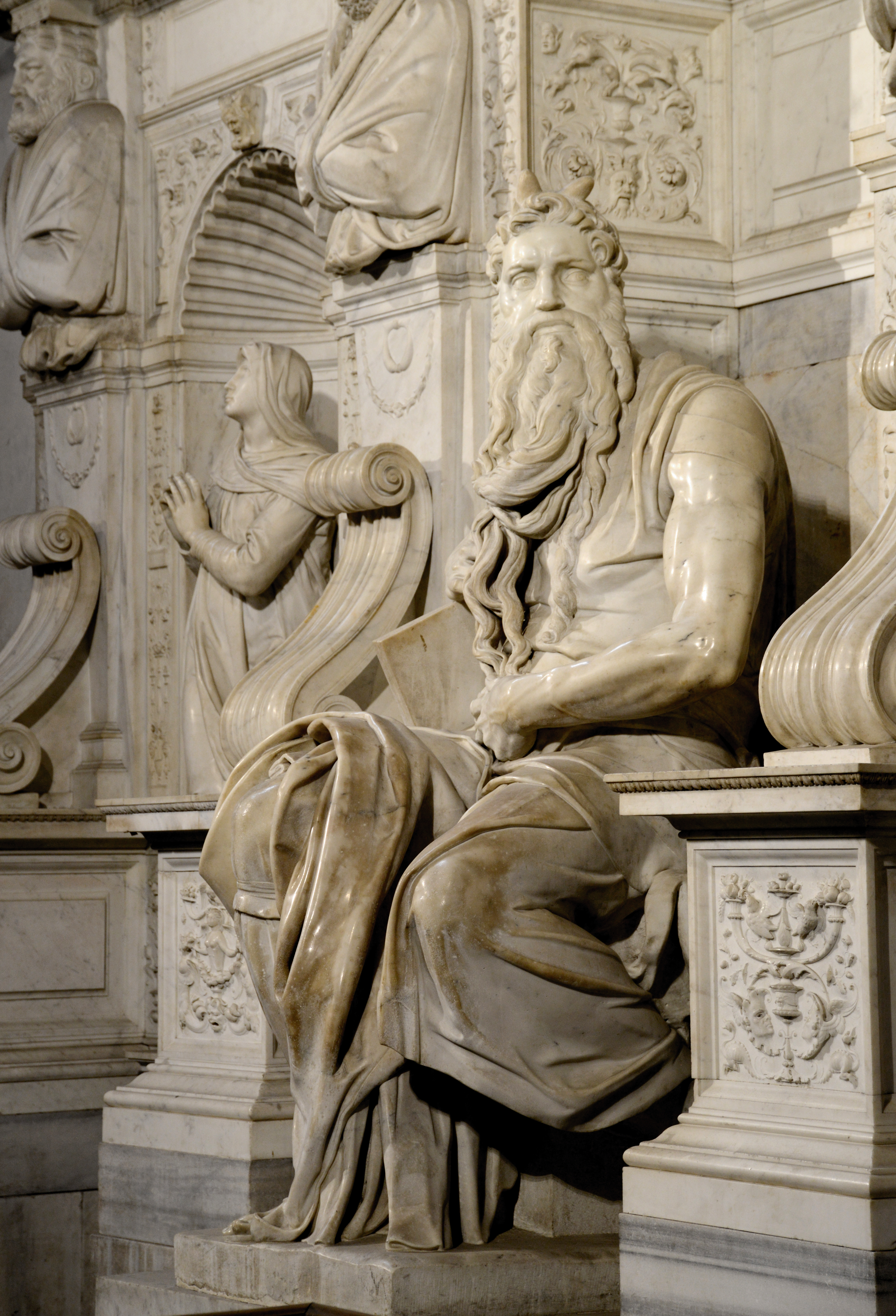 Statue of Moses by Michelangelo, in the church of San Pietro in Vincoli, Rome